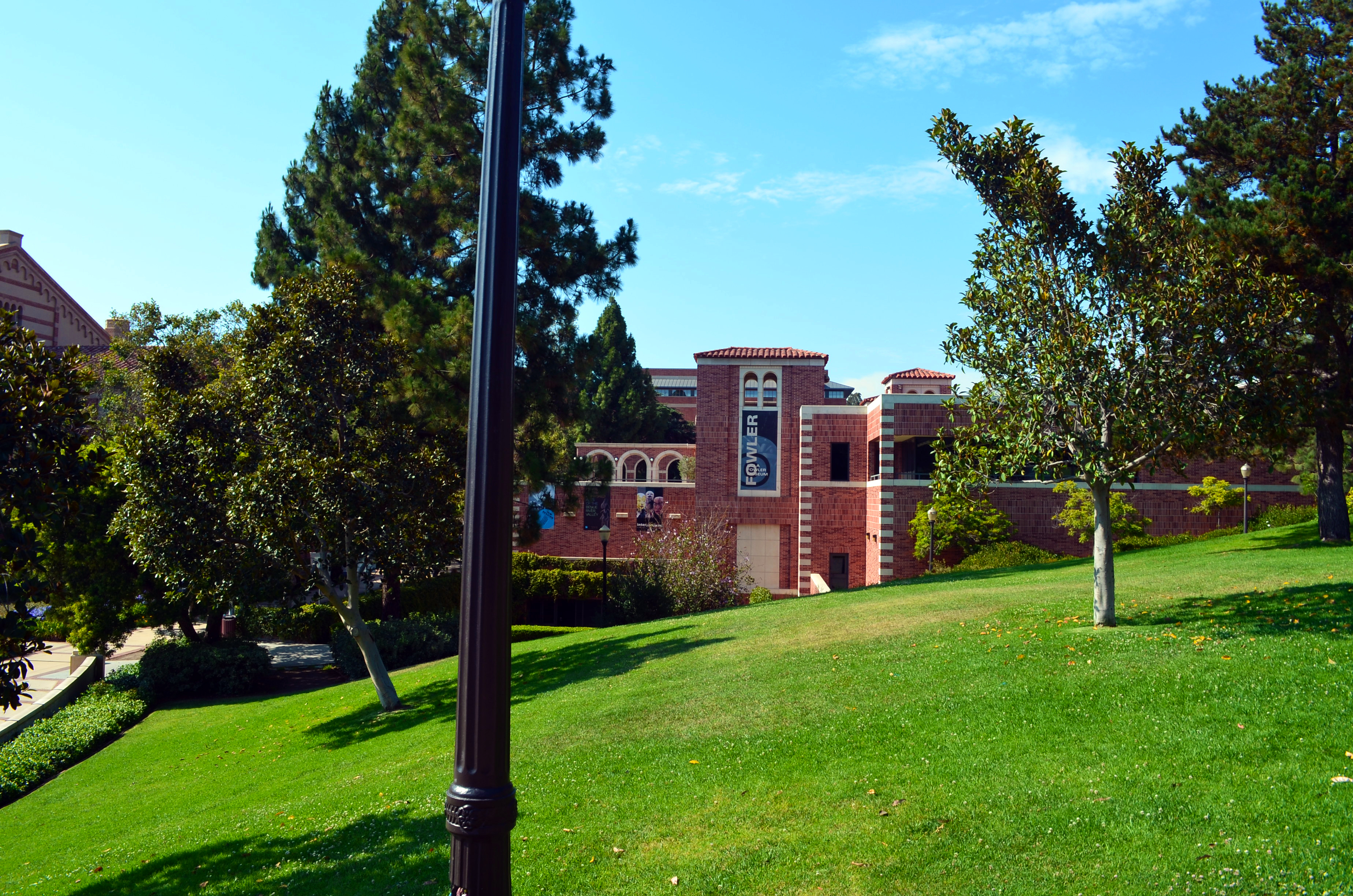 The Fowler Museum of Cultural History, which has exhibits highlighting non-Western art and artifacts, sits to the north of Janss Steps. Admission to the Fowler Museum is free.